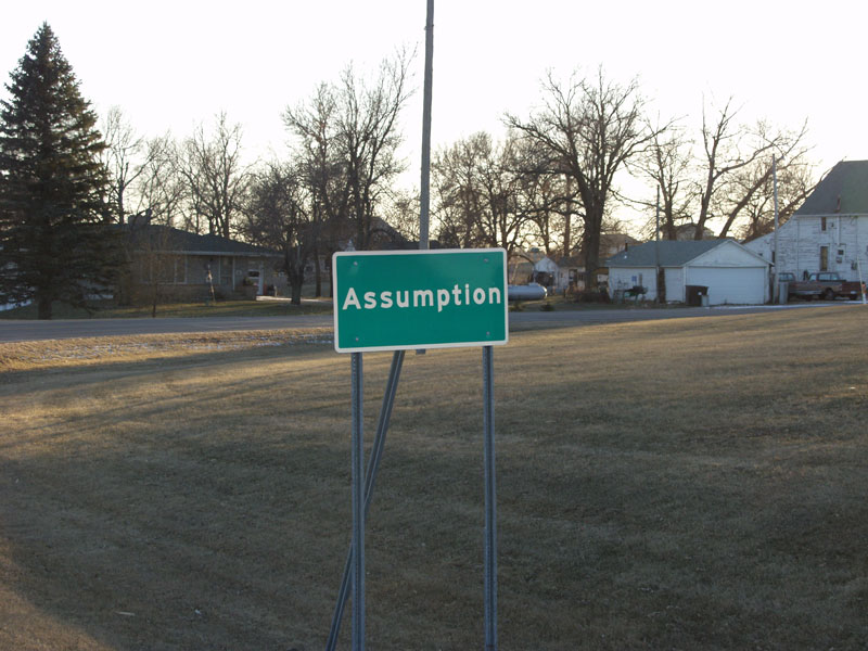 Assumption, Minnesota. From .